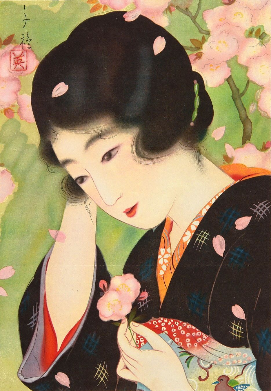 Beauty and Cherry Blossoms, Kuchi-e, lithograph